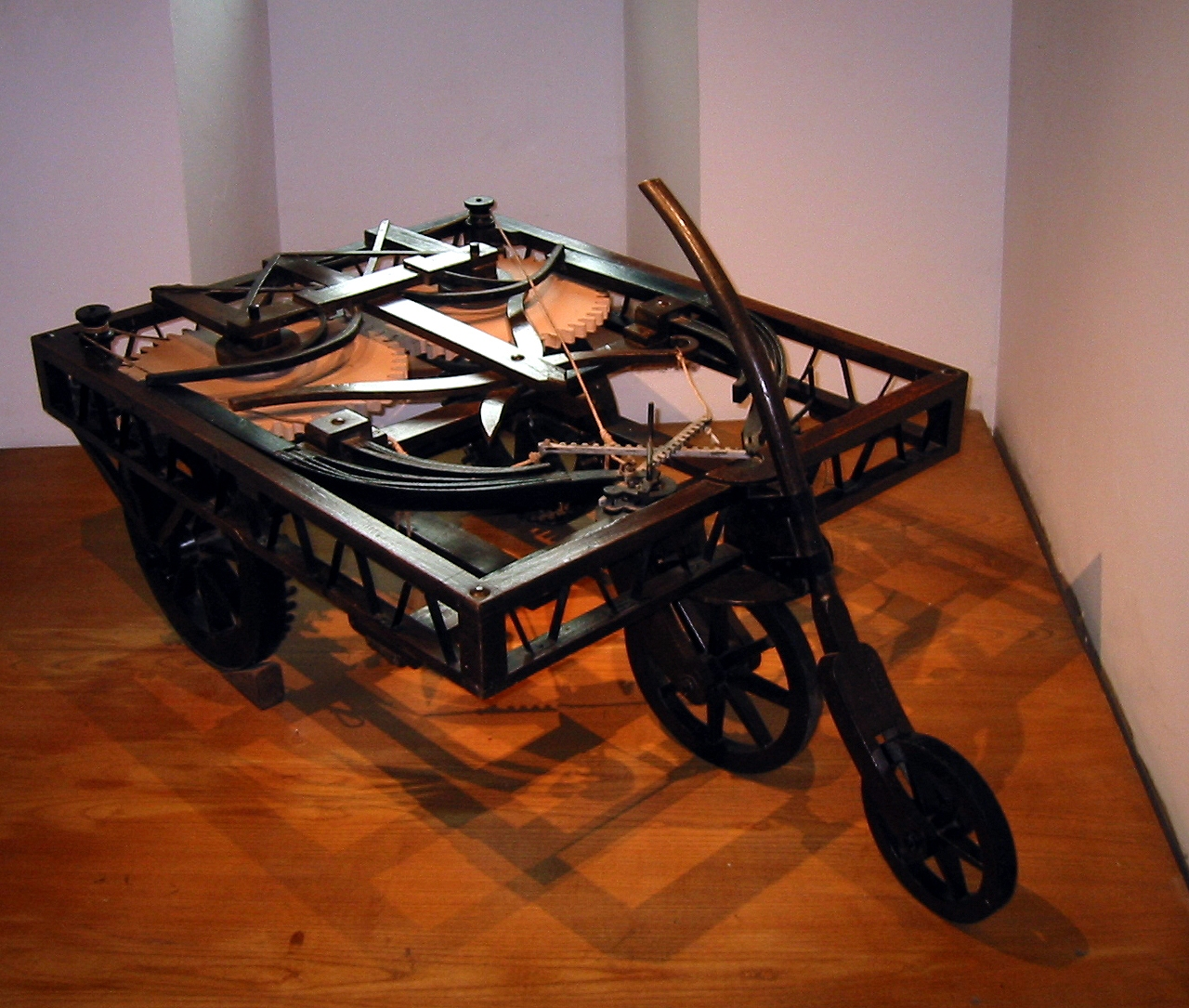 Reconstruction of an automobile invented by Leonardo da Vinci, on view at Château du Clos Lucé in Amboise in France.